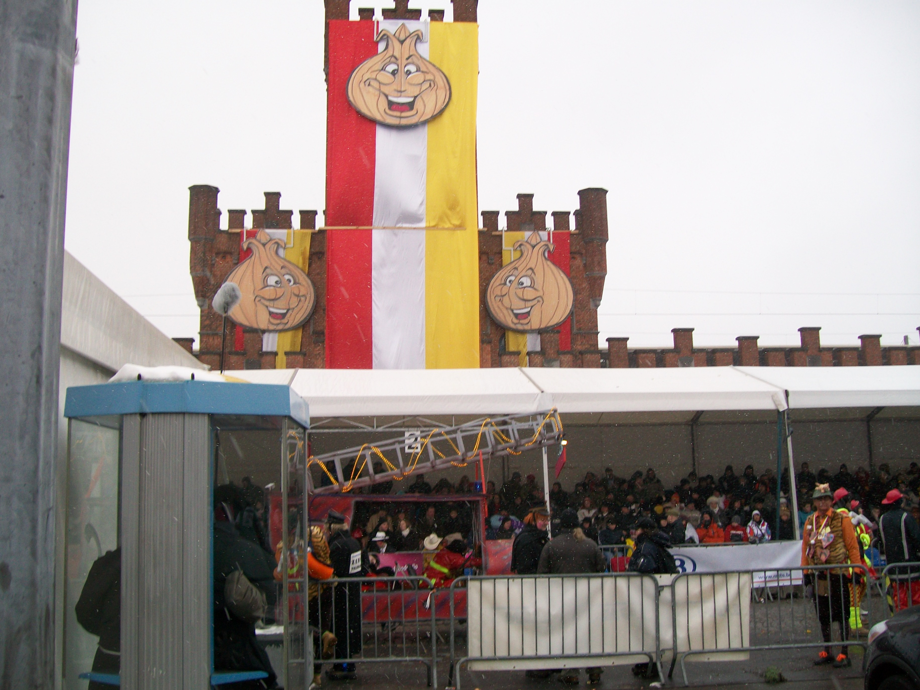 The station of Aalst during the 2010 Carnaval parade